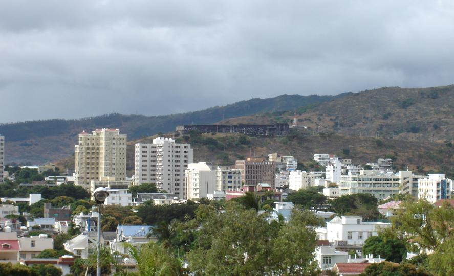 The Citadel of Port Louis.